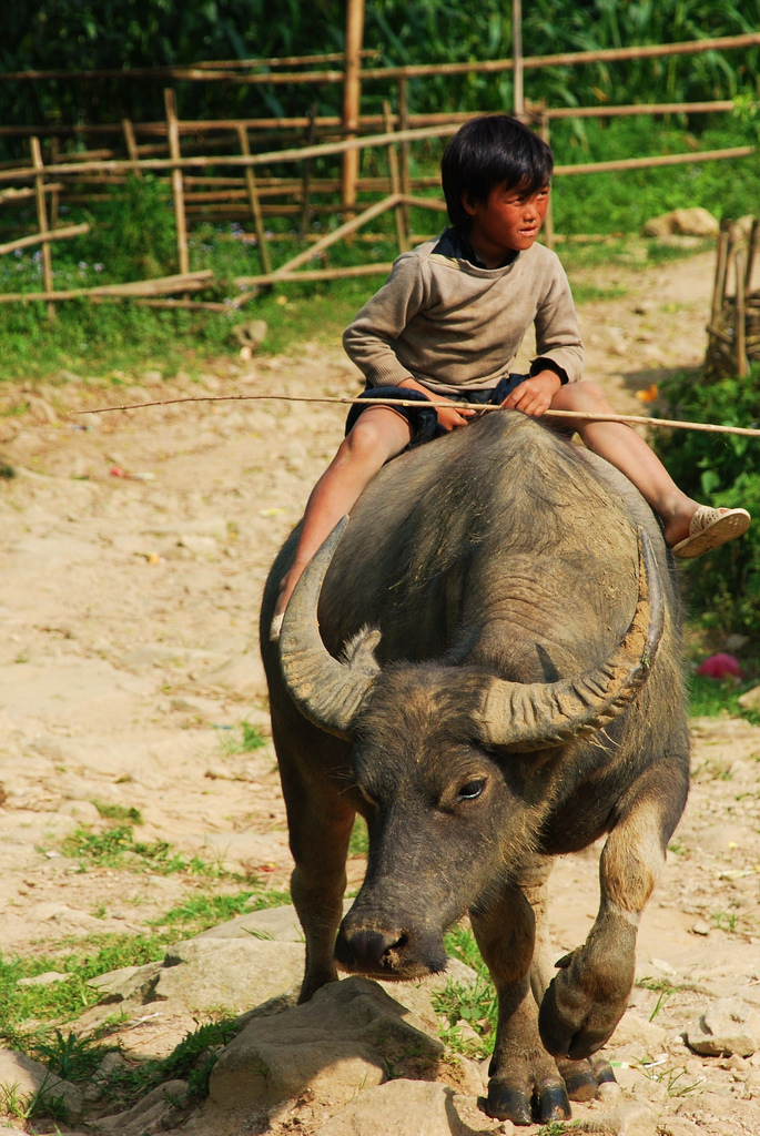 Buffalo and minder, in a small village about 15 klms east of Sapa, Vietnam.